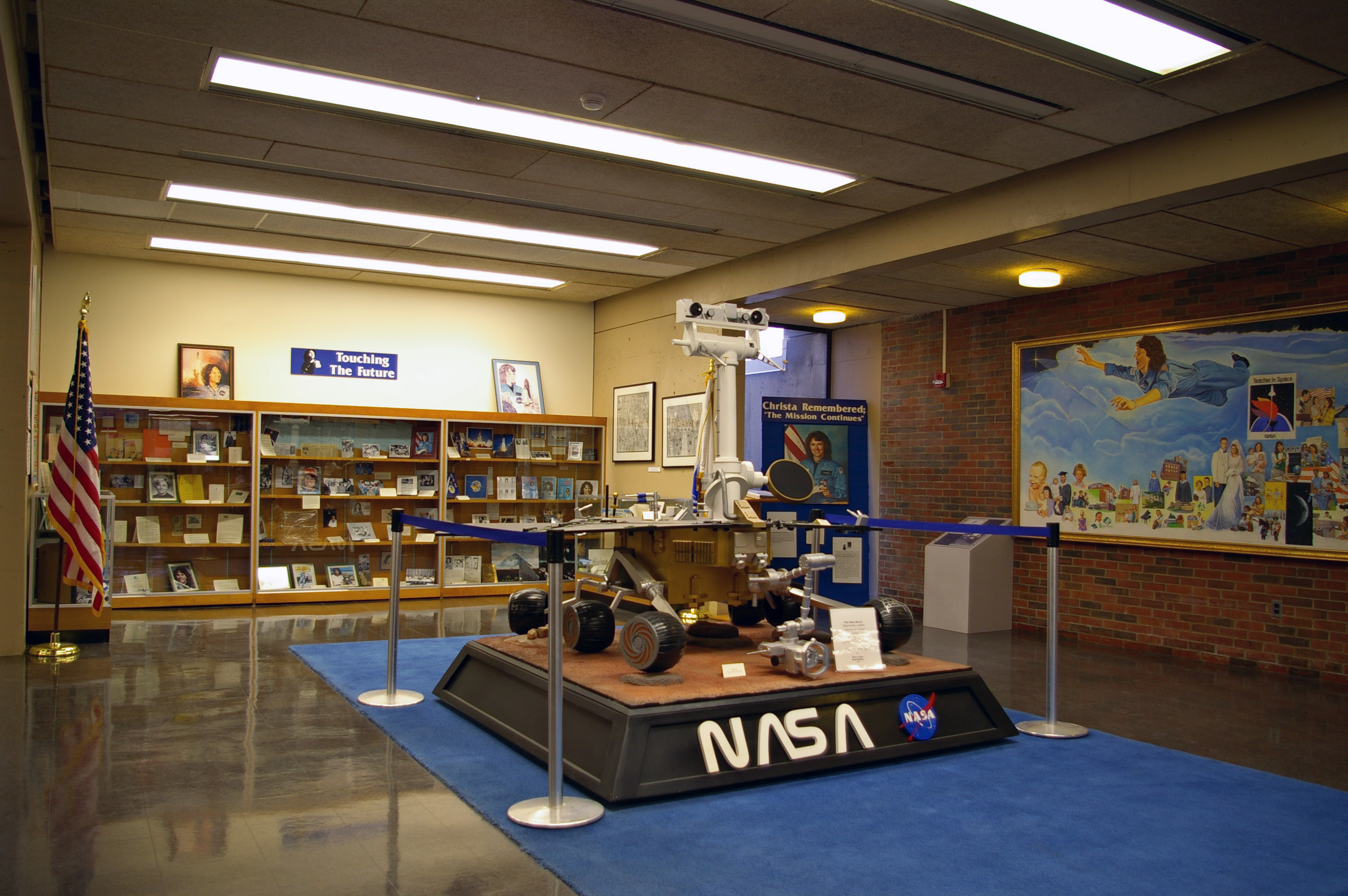 The Christa Corrigan McAuliffe Exhibit in the Henry Whittemore Library at Framingham State College (Framingham, Massachusetts, USA)